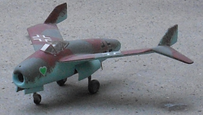 Model photo of Blohm & Voss P 212